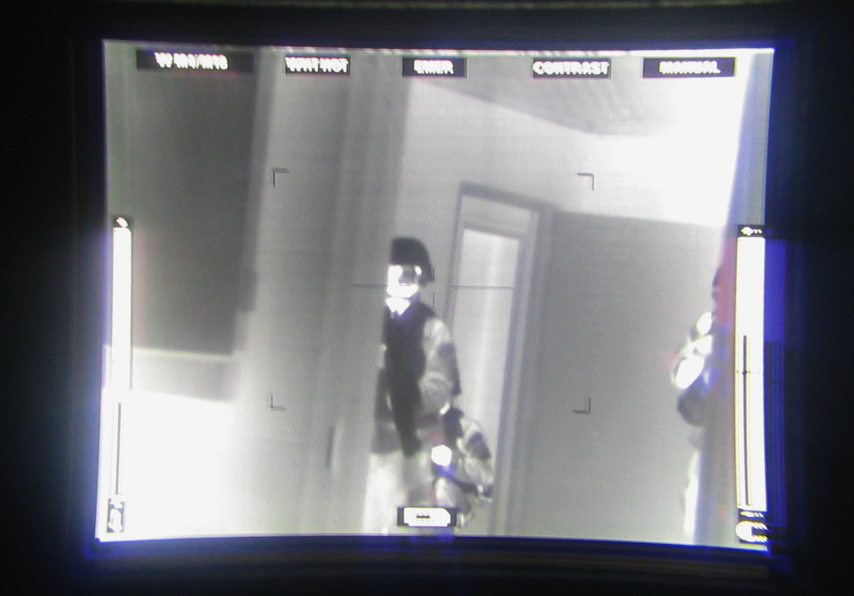 The AN/PAS-13 Thermal Weapon Sight (TWS) enables Soldiers with individual and crew served weapons to see deep into the battlefield, increase surveillance and target acquisition range, and penetrate obscurants, day or night.